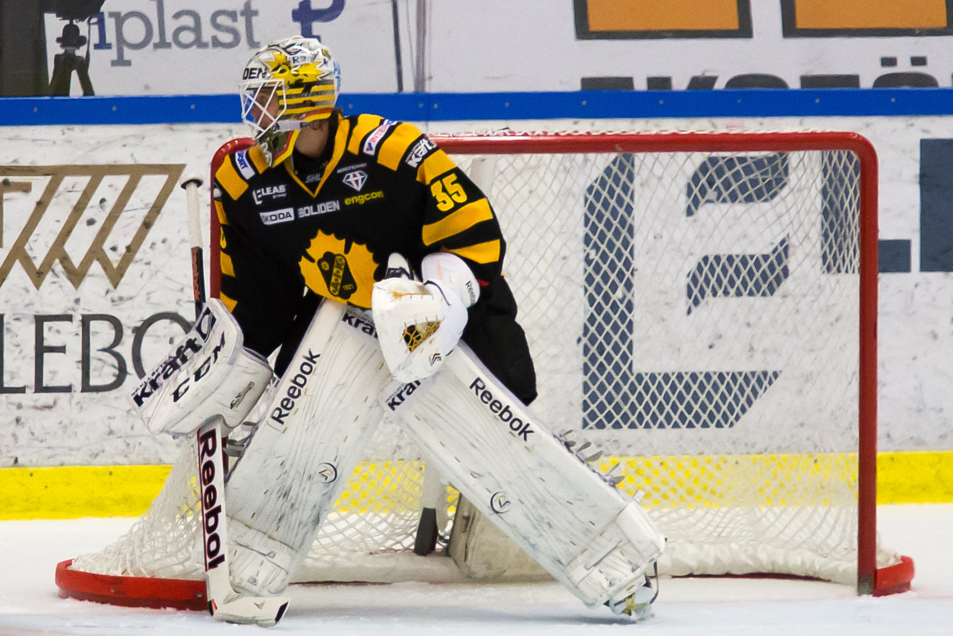 Markus Svensson in SAIK